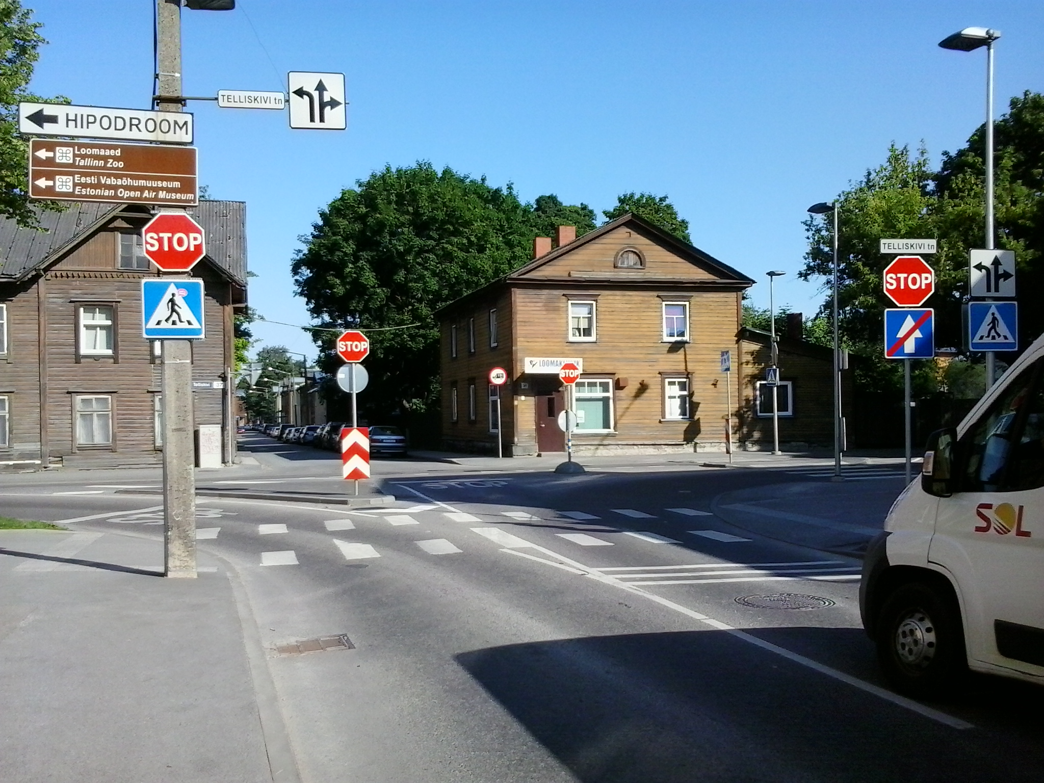 Extensive stop signage on the infamous intersection[1] of Telliskivi and Rohu streets in Tallinn, with four red STOP signs and two STOP markings on the road. The number of erected stop signs was increased to four, because irresponsible motorists often crashed their cars into the two houses across the street.The photo was taken in the morning of a late June day in 2016.